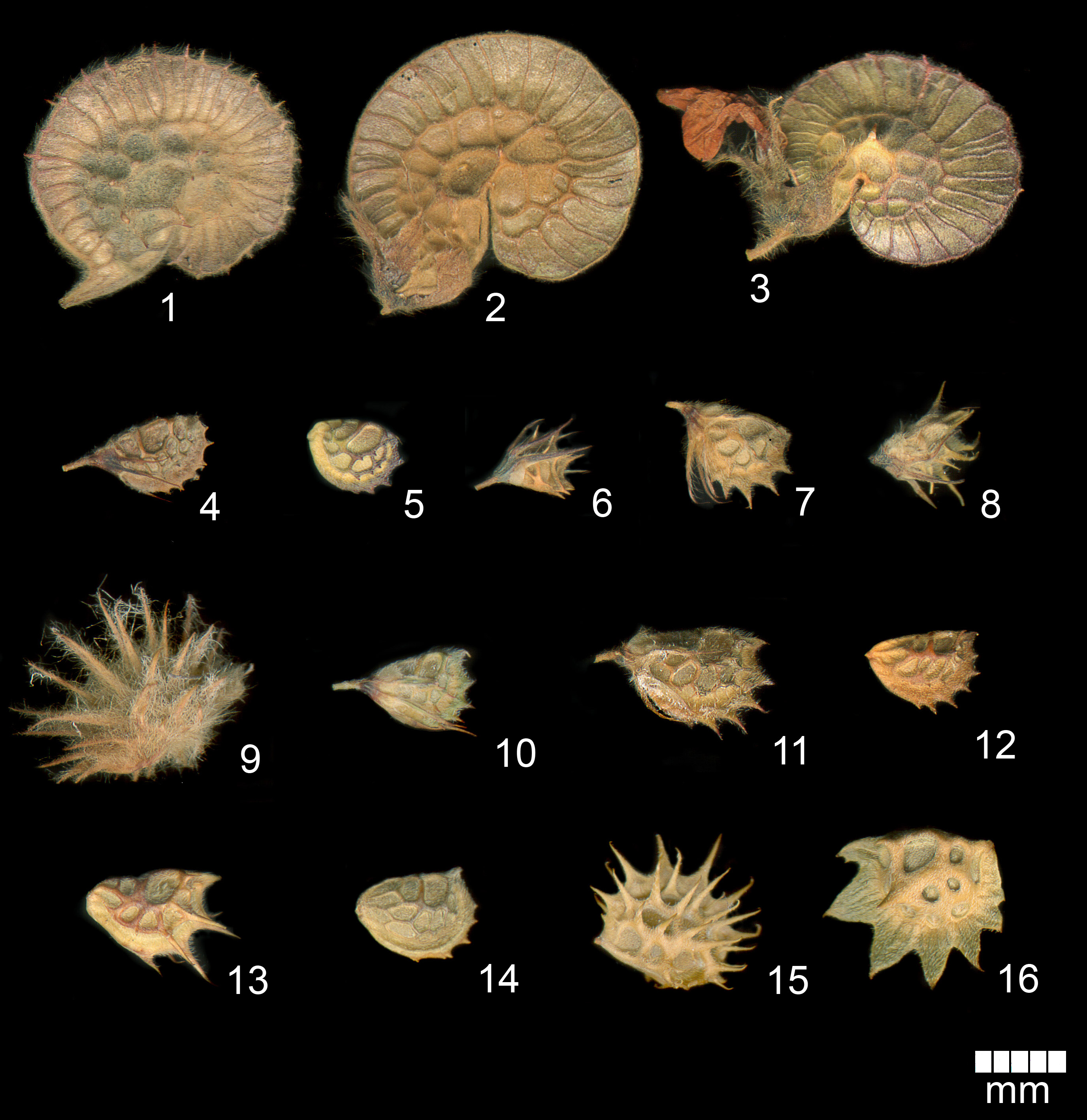 Seed pods of various Onobrychis species: 1) Onobrychis hypargyrea 2) Onobrychis pallasii 3) Onobrychis radiata (sensu (Desf.) M.Bieb.?) 4) Onobrychis petraea (sensu (Willd.) Fisch.?) 5) Onobrychis supina 6) Onobrychis gracilis 7) Onobrychis stenorhiza 8) O. alba ssp. calcarea (= O. calcarea) 9) Onobrychis humilis ssp. humilis (= O. eriophora) 10) Onobrychis conferta ssp. hispanica (= O. hispanica) 11) Onobrychis montana 12) Onobrychis arenaria ssp. tommasinii (= O. tommasinii) 13) Onobrychis oxyodonta 14) Onobrychis inermis 15) Onobrychis caput-galli 16) Onobrychis aequidentata